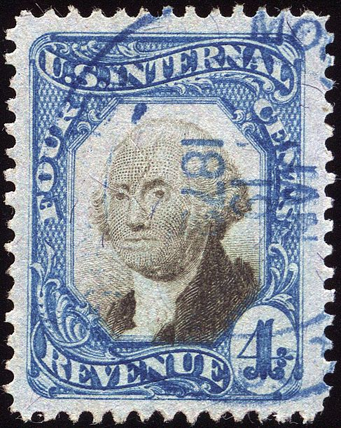 Washington revenue 4c 1871